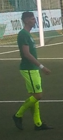 Róbert Boženík